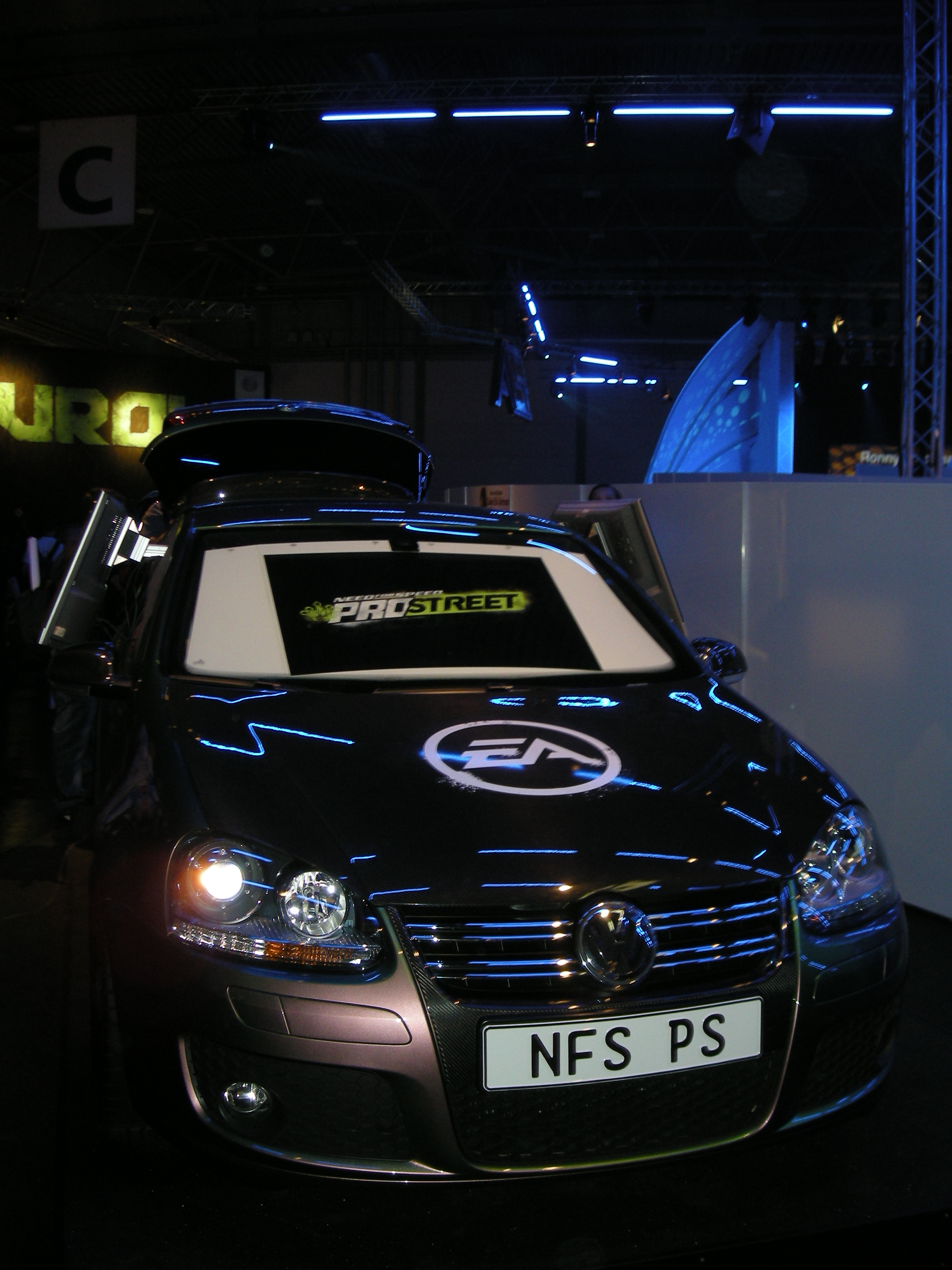 Games Convention 2007, Need For Speed